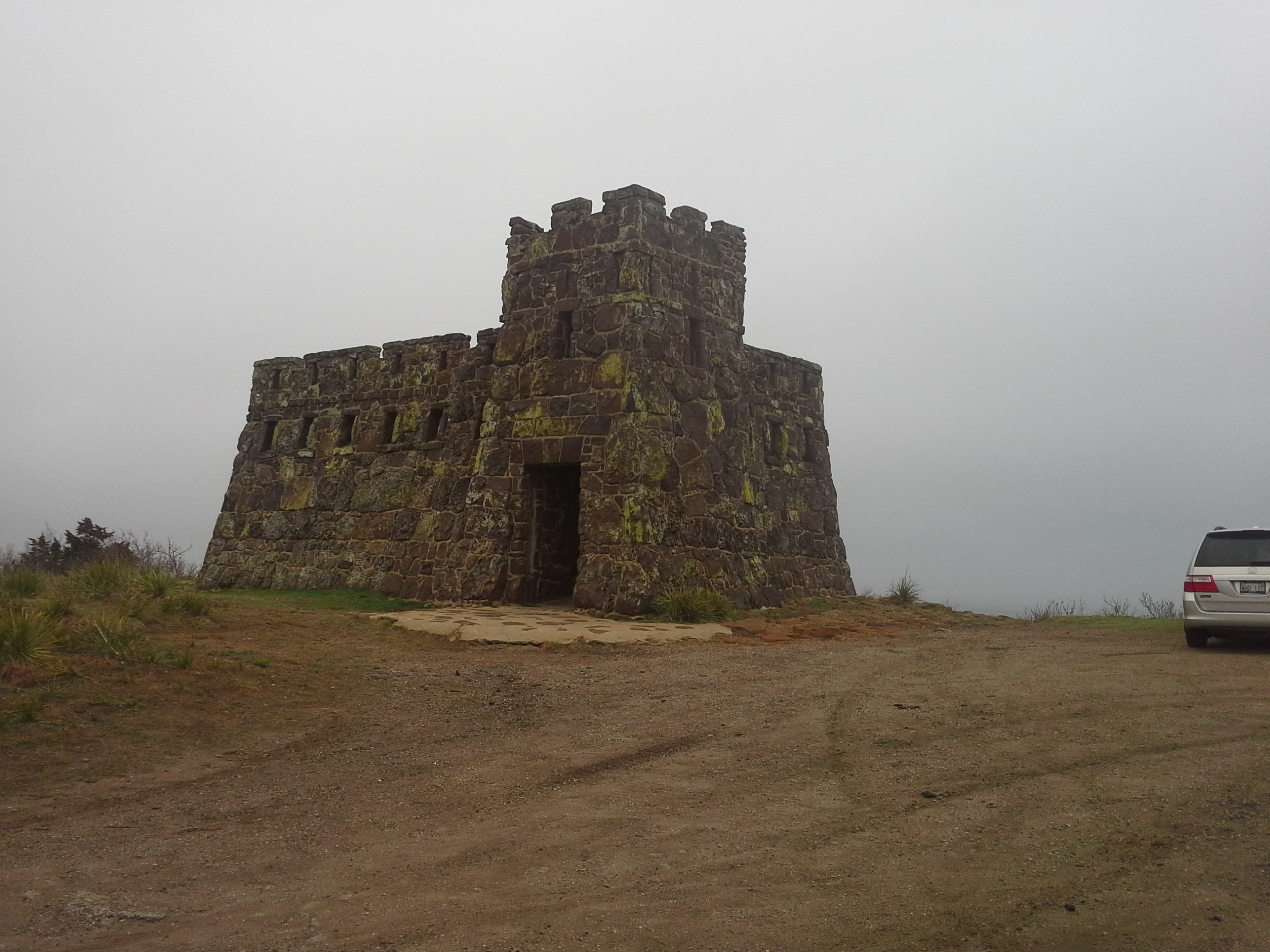 The Works Progress Administration castle at Coronado Heights in Lindsborg Kansas KS USAA cropped version is available.